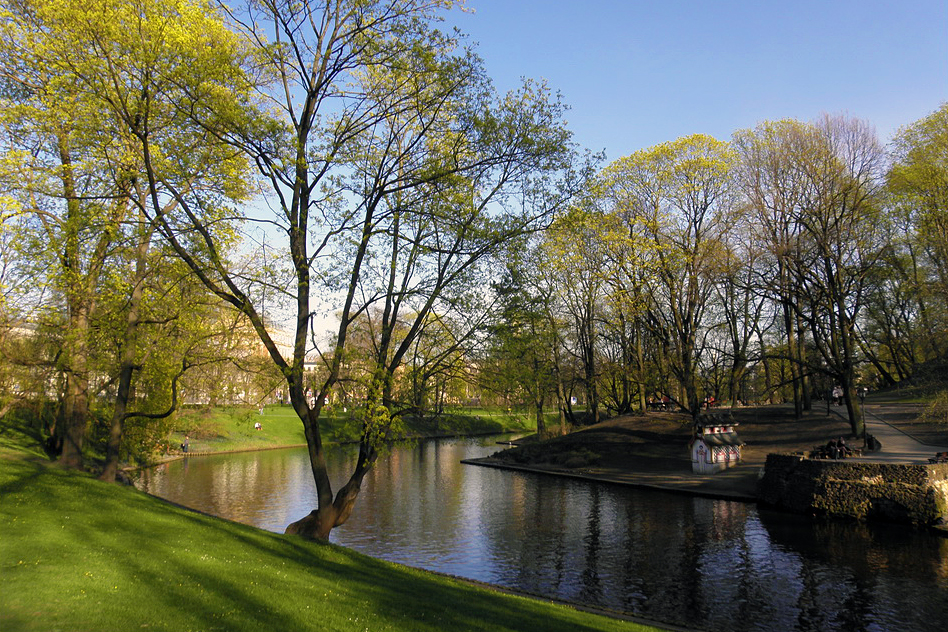 Parks along the Riga city canal